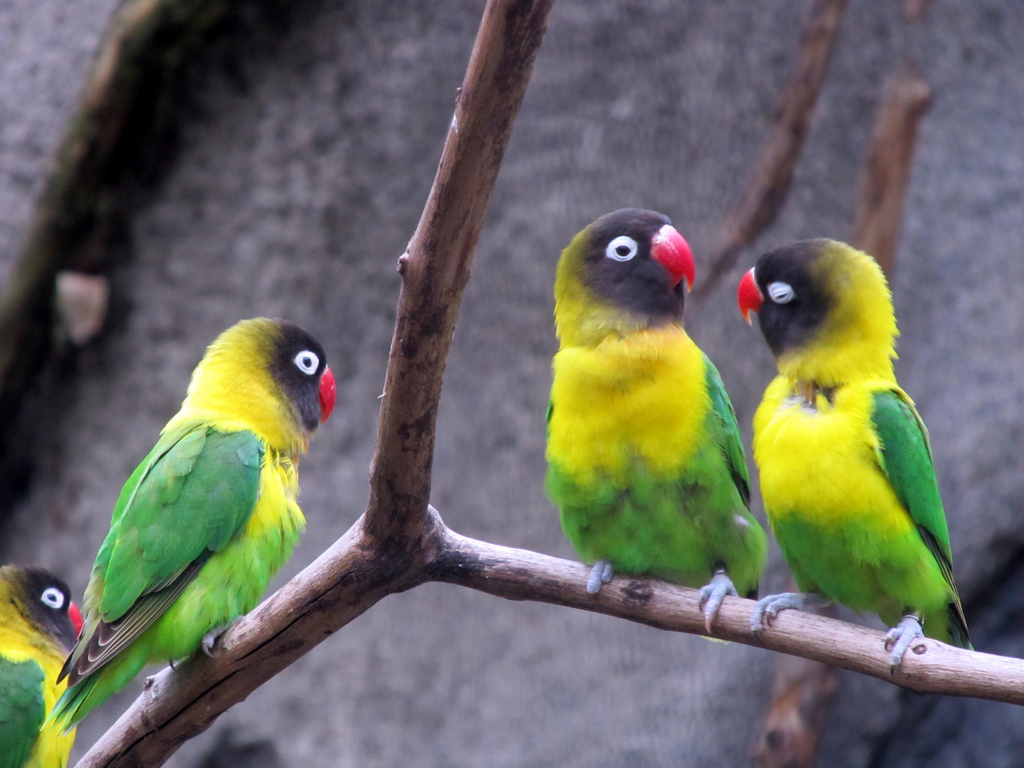 Several Yellow-collared Lovebirds at Kansas City Zoo, Missouri, USA.